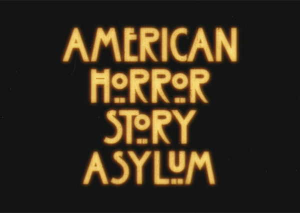 Logo from American Horror Story: Asylum.